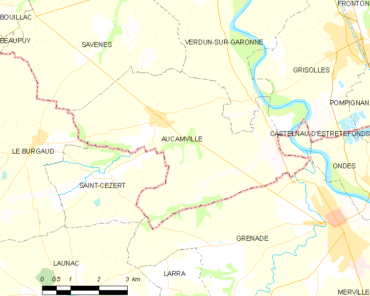 Map of French municipality Aucamville